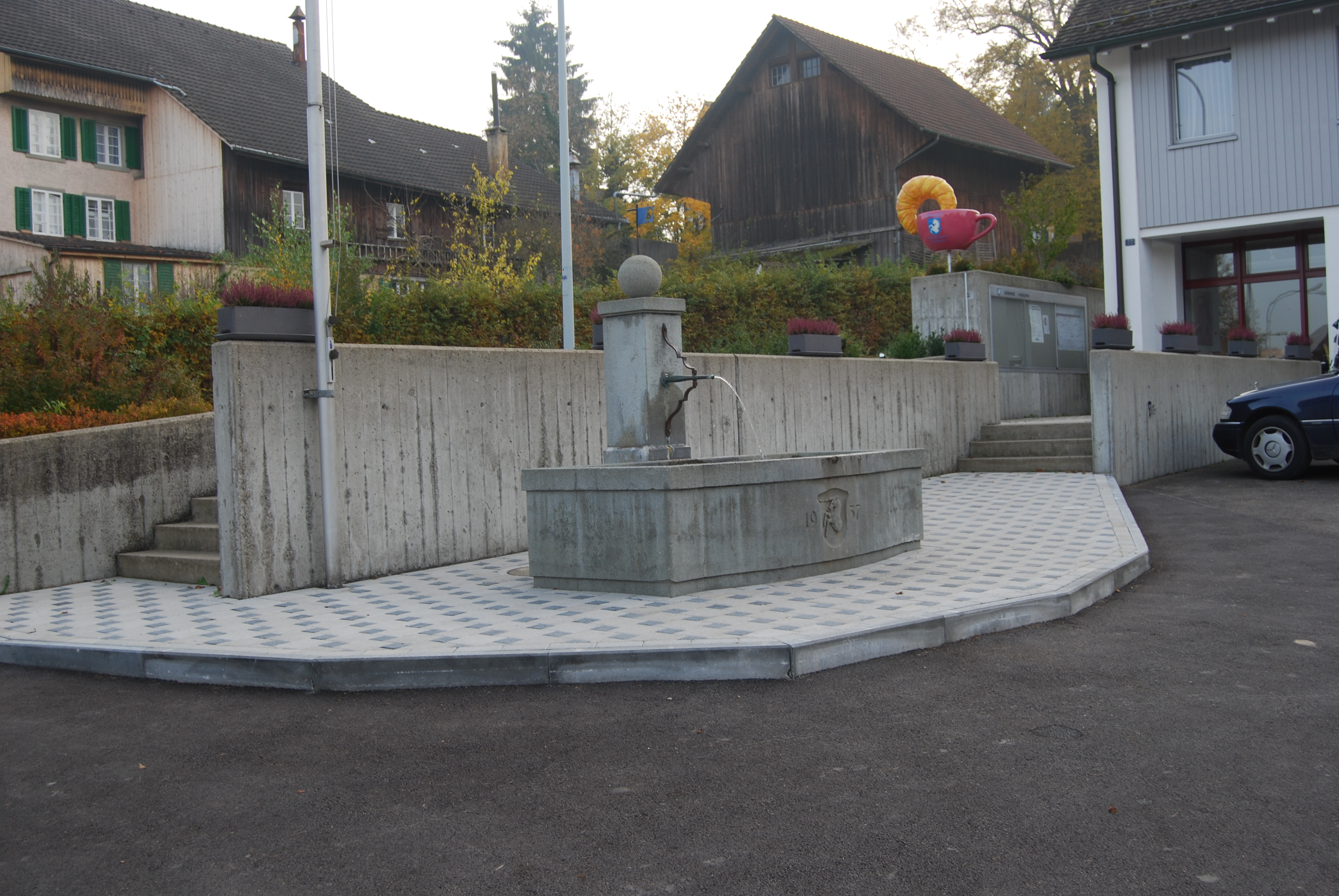 Village fountain at Humlikon, canton of Zürich, SwitzerlandEsperanto: Vilaĝa puto en Humlikon, Kantono Zuriko, Svislando